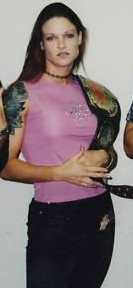 2000 photo of Lita as Women's Champion.